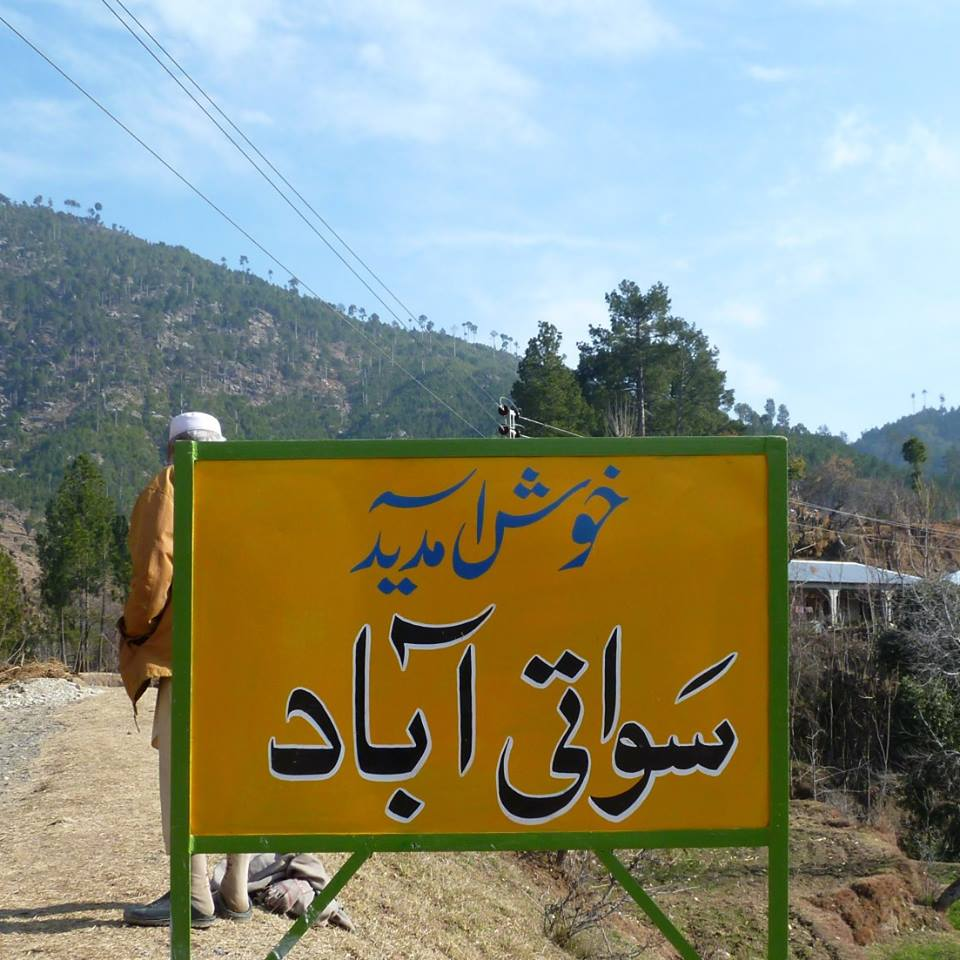 Swatiabad